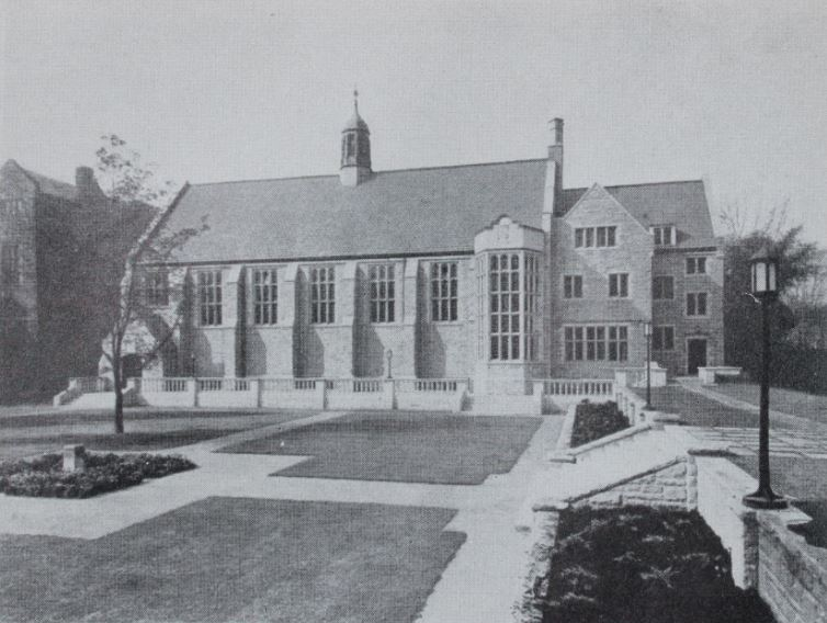 A photograph of the exterior of Strachan Hall at Trinity College, Toronto.